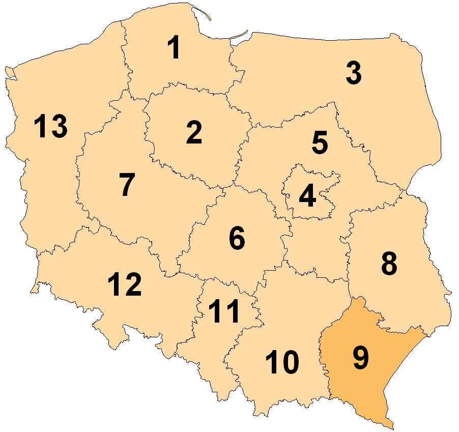 Subcarpathian (European Parliament constituency) - European Parliament constituencie in Poland